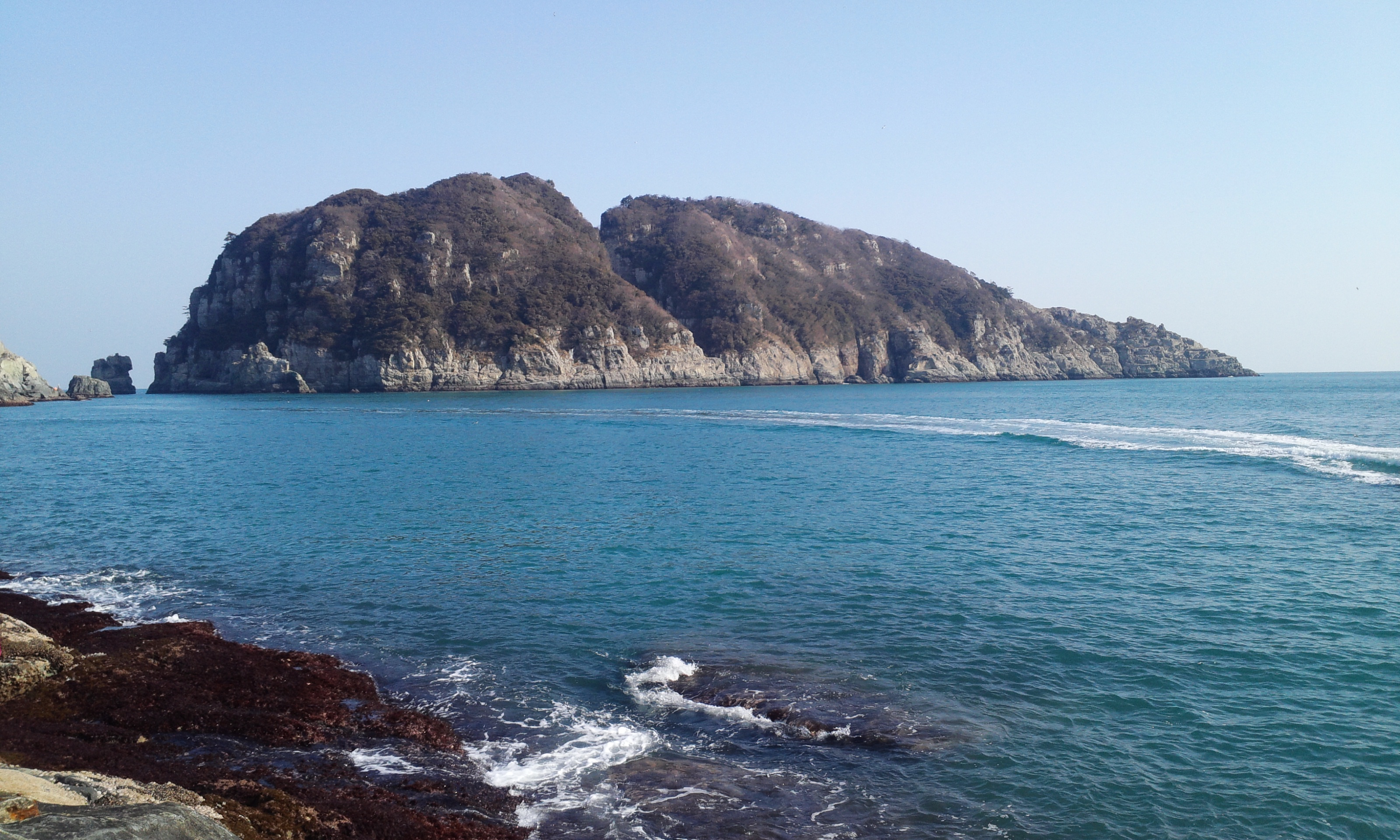 This is the picture taken near Haegeumgang Ferry Terminal on February 10th 2014.